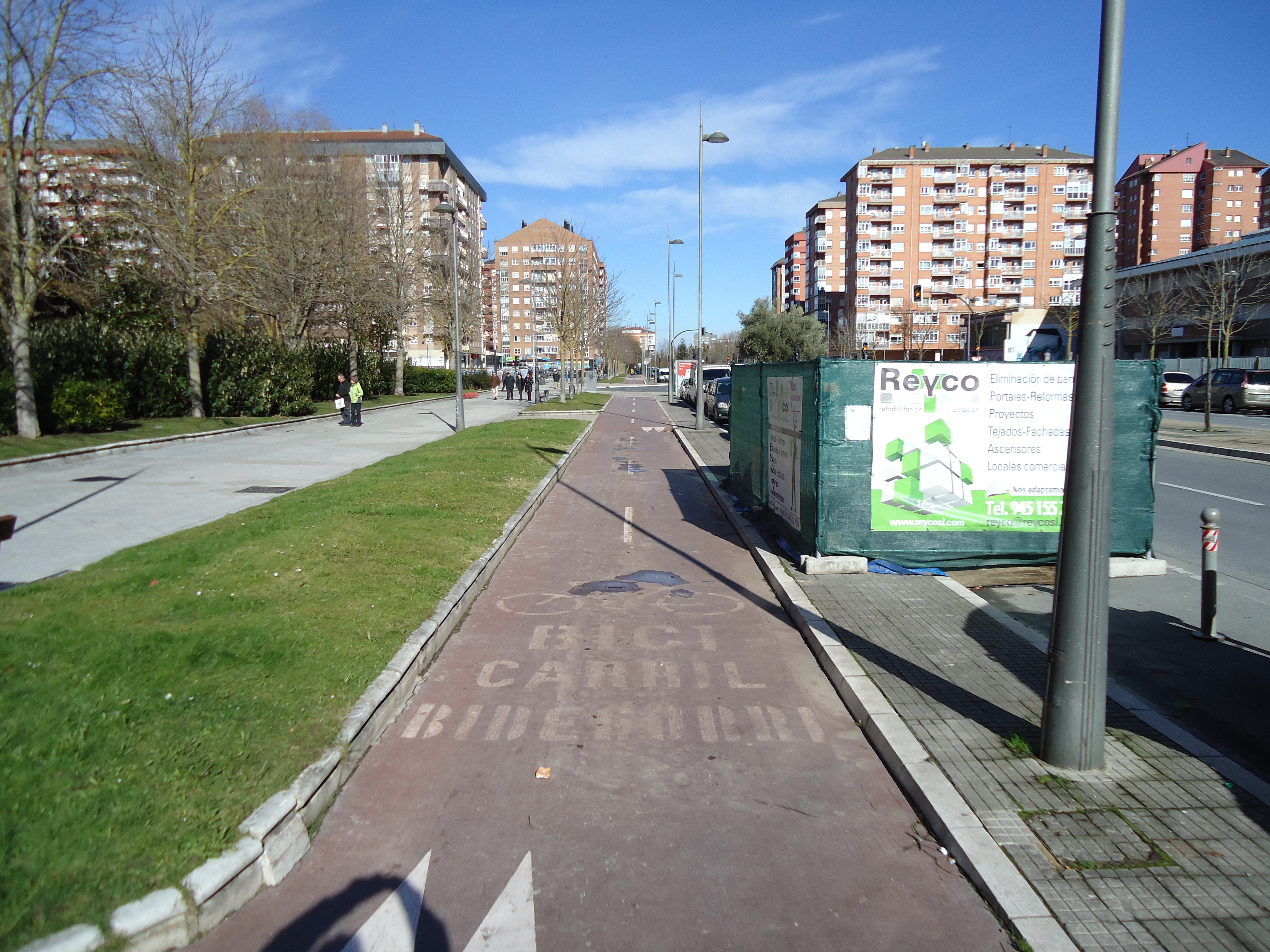 Bikeway in Vitoria-Gasteiz (Basque Country, Spain)